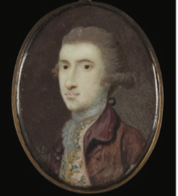 This image depicts English botanist and supercargo John Bradby Blake (1745-1773). The original work is located at the Oak Spring Garden Foundation in Upperville, Virginia.